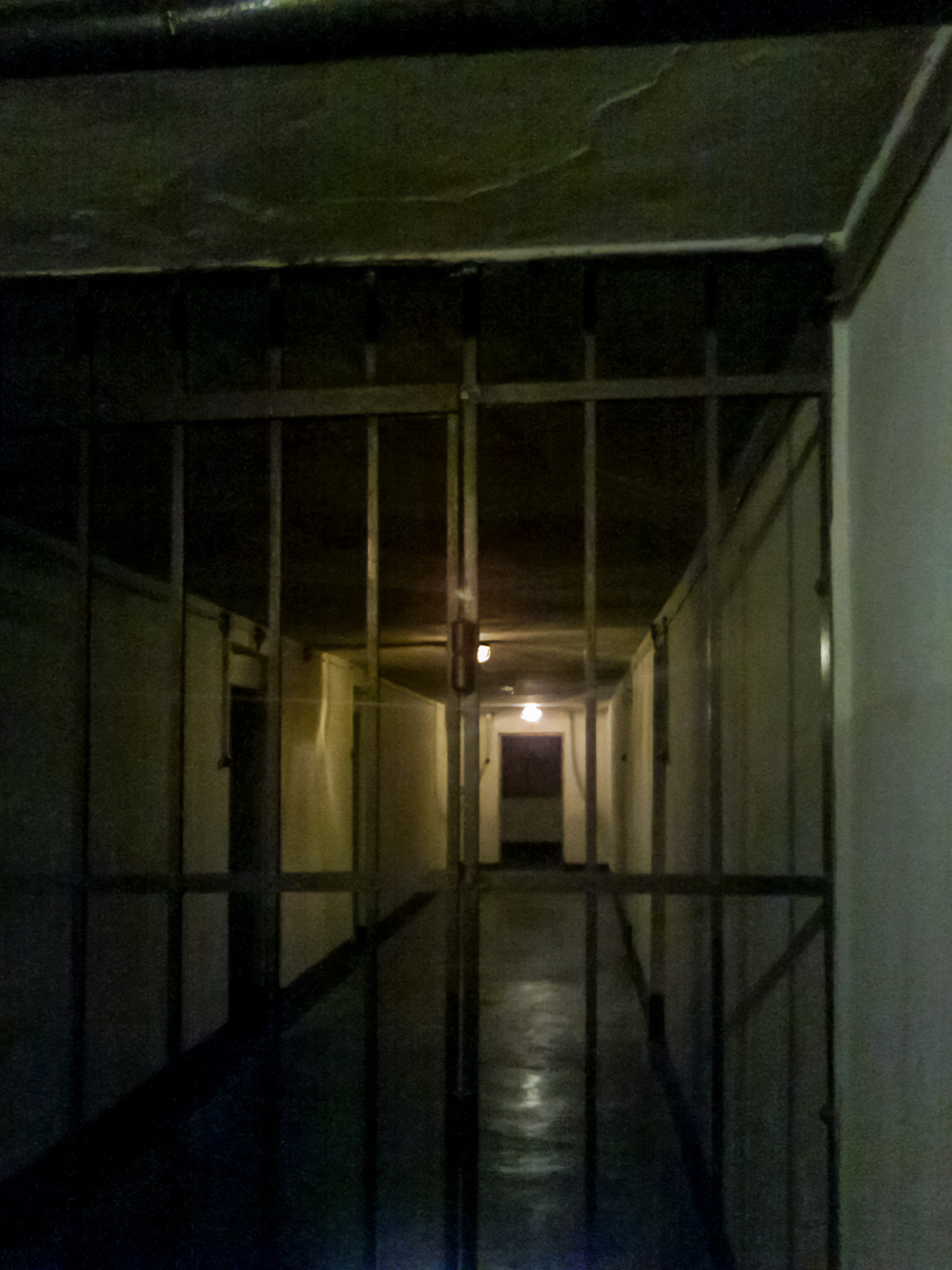 A corridor leading to cells on the starvation block in Auschwitz 1.